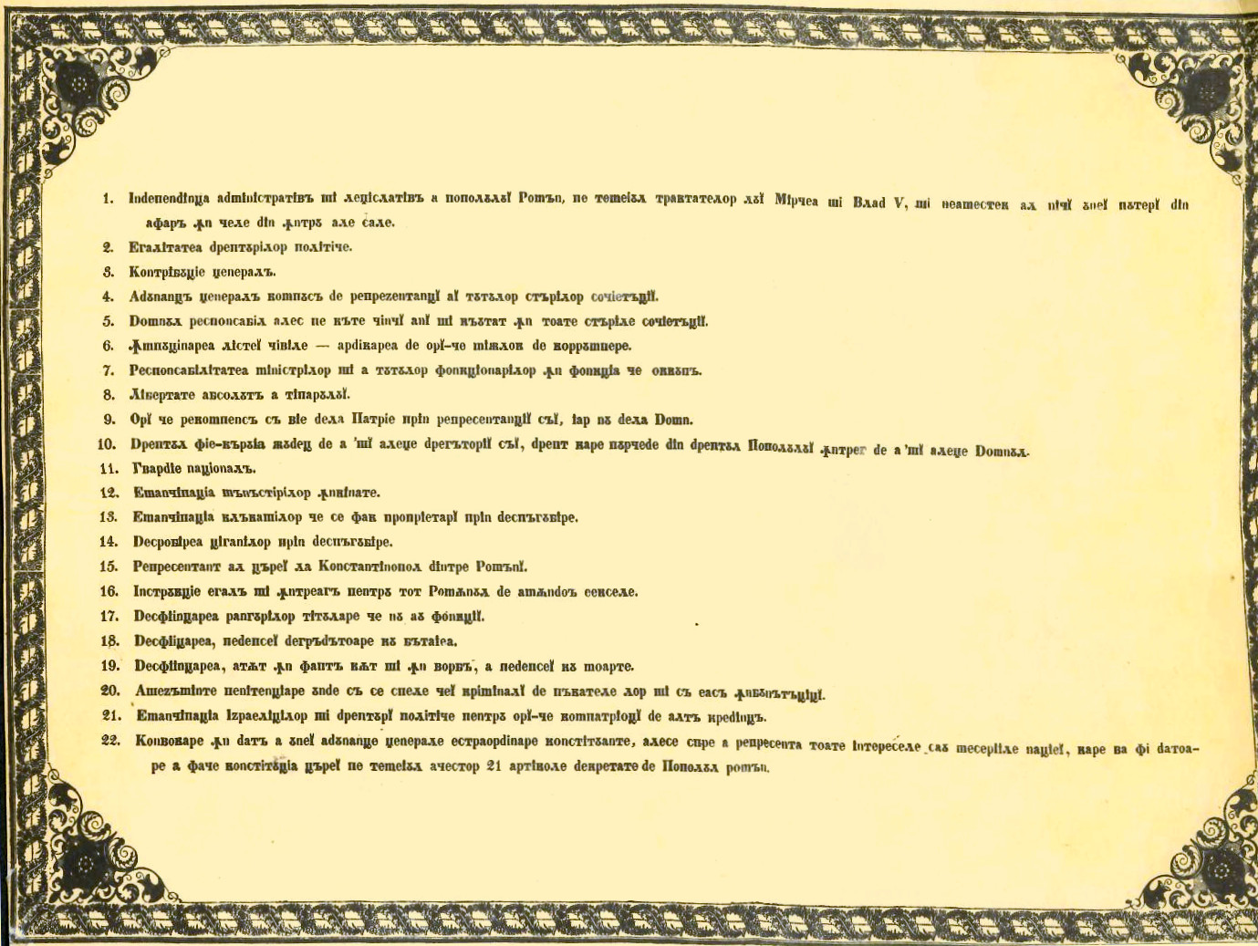 Proclamation of Islaz from 1848, written in Romanian, using the Cyrillic alphabet.